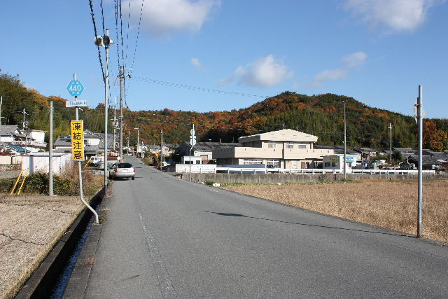 Hyogo Prefectural Road 440